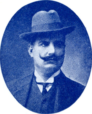 Dimitrios Koukiadis (19th c.-20th c.): Greek politician